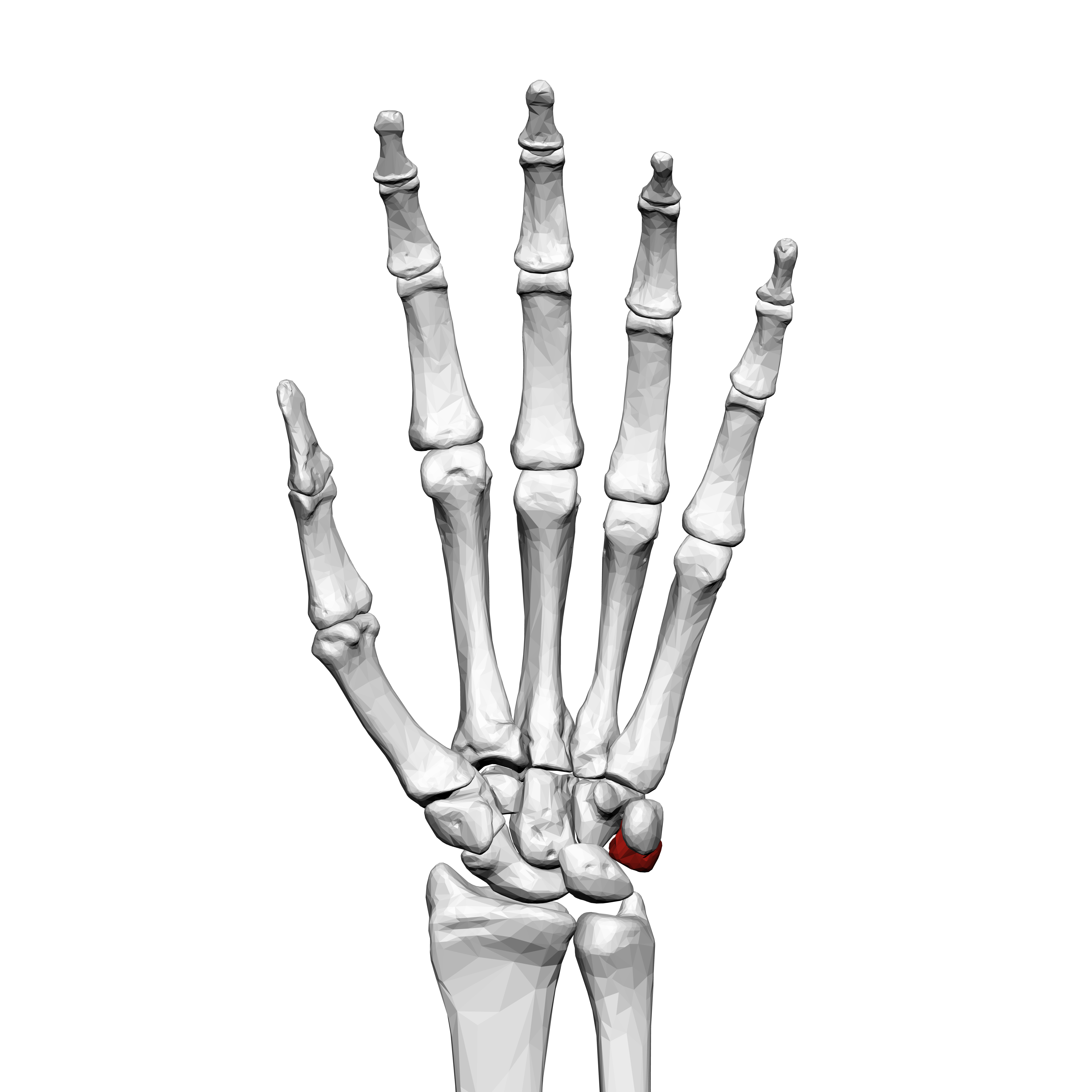 Triquetral bone (shown in red).